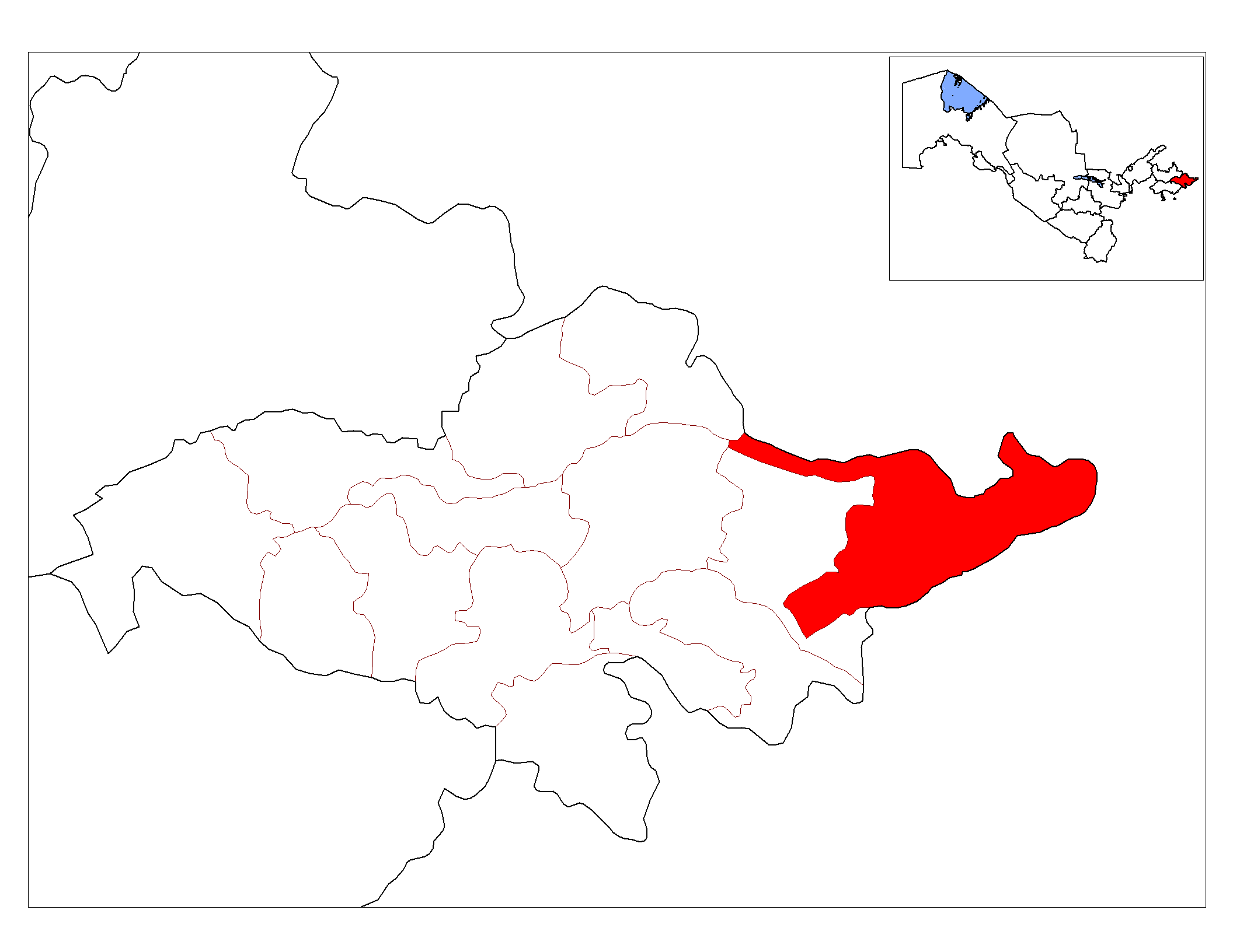 Location of Qo’rg’ontepa District in Andijon Province